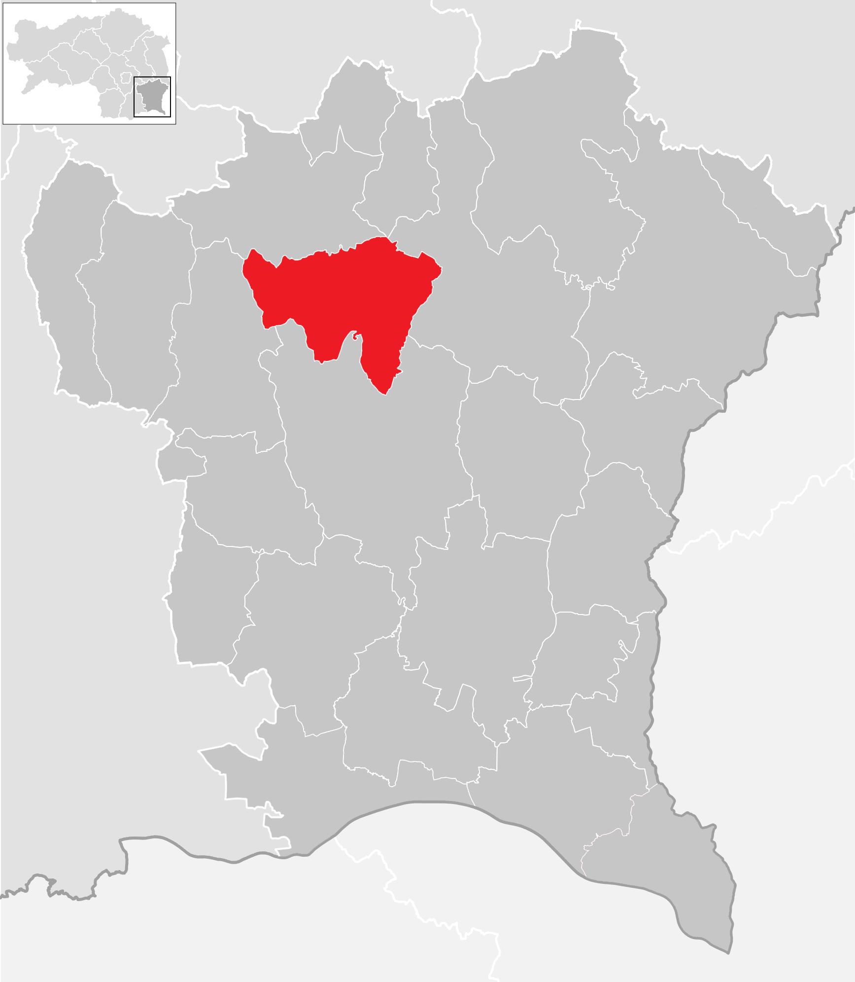 district Südoststeiermark